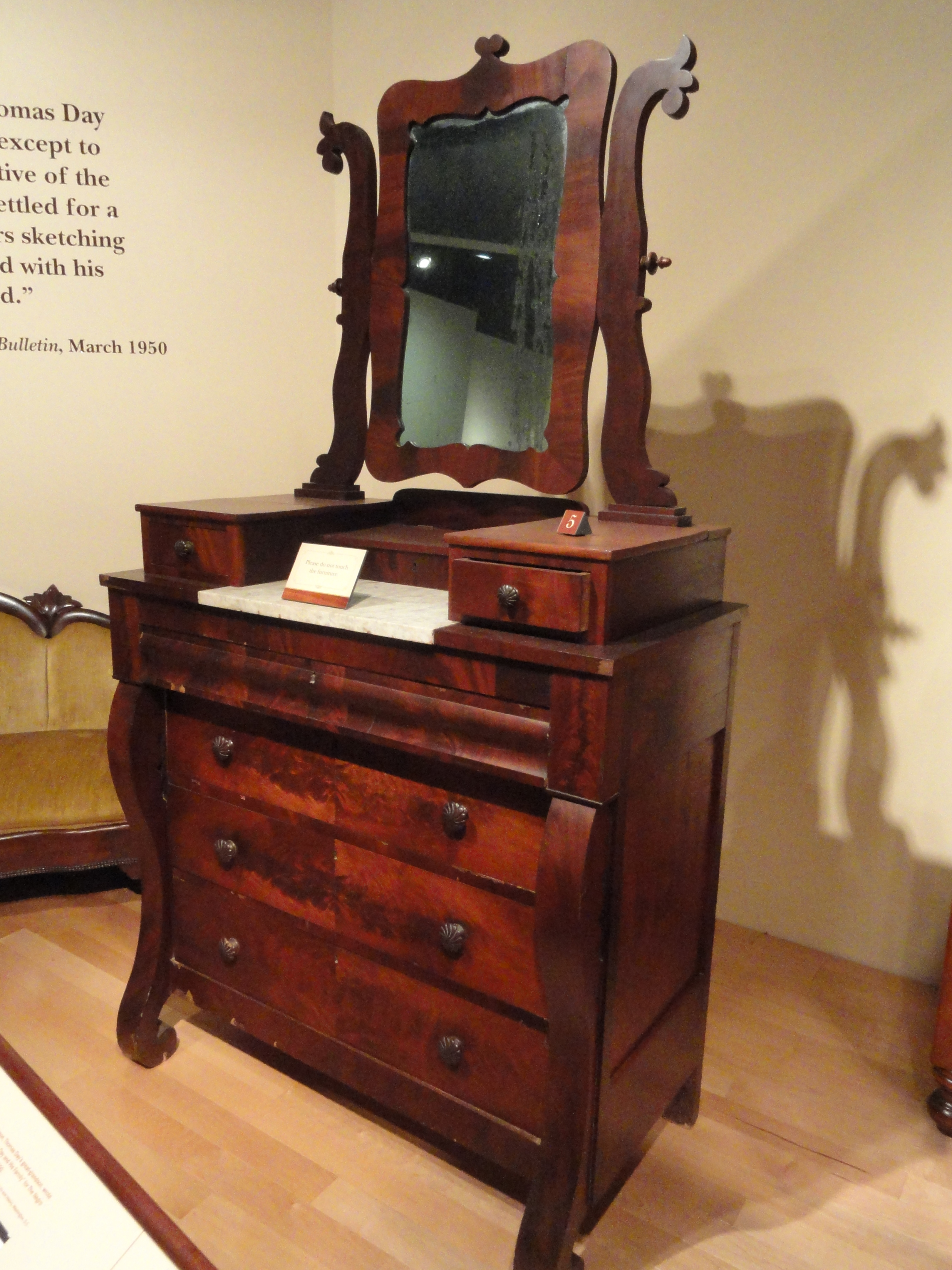 Furniture exhibit in the North Carolina Museum of History, Raleigh, North Carolina, USA.